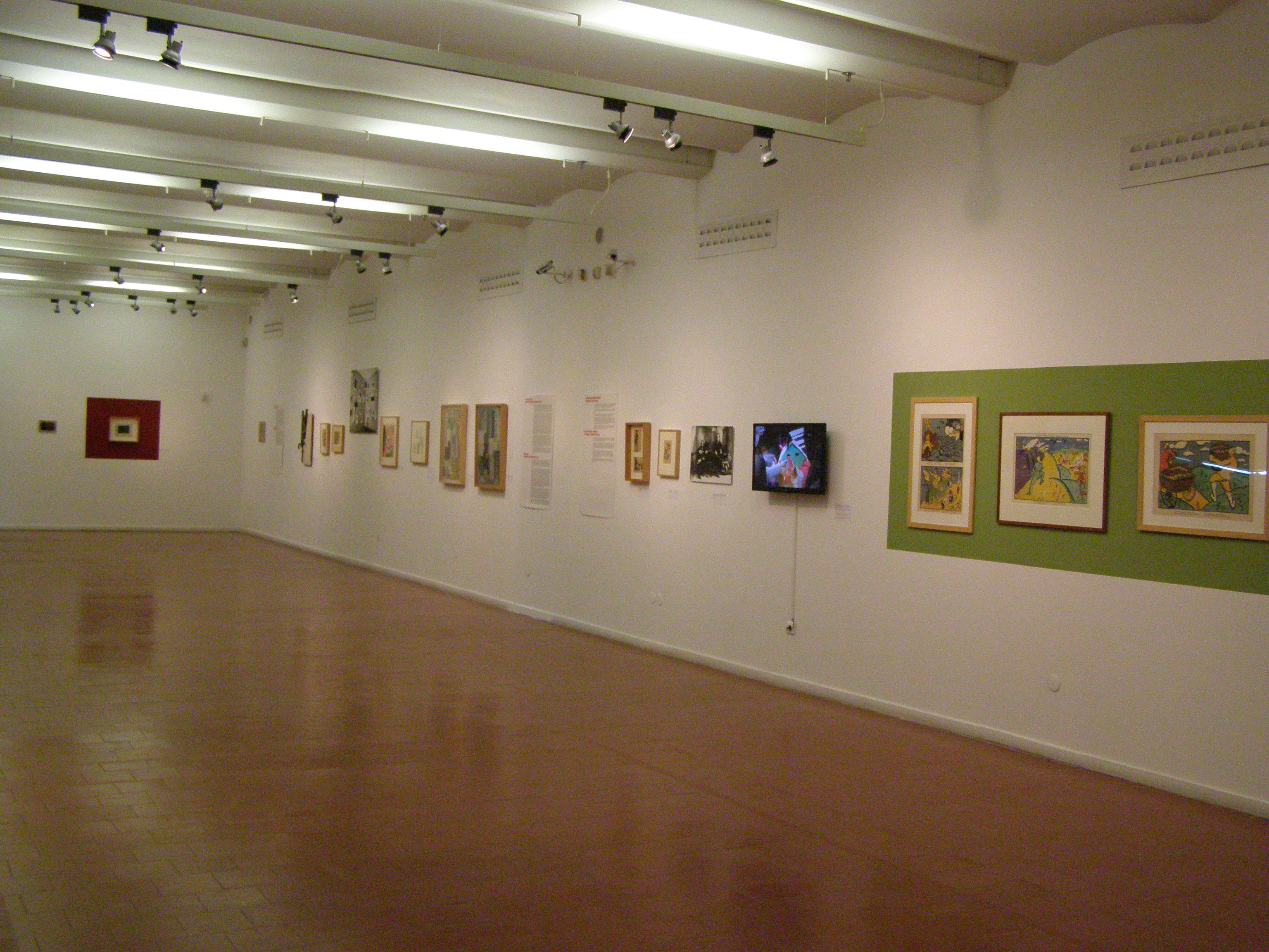 Inside view of the State Museum of Contemporary Art in Thessaloniki.